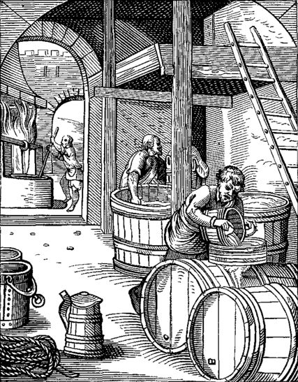 Edited copy of Image:The Brewer designed and engraved in the Sixteenth. Century by J Amman.png